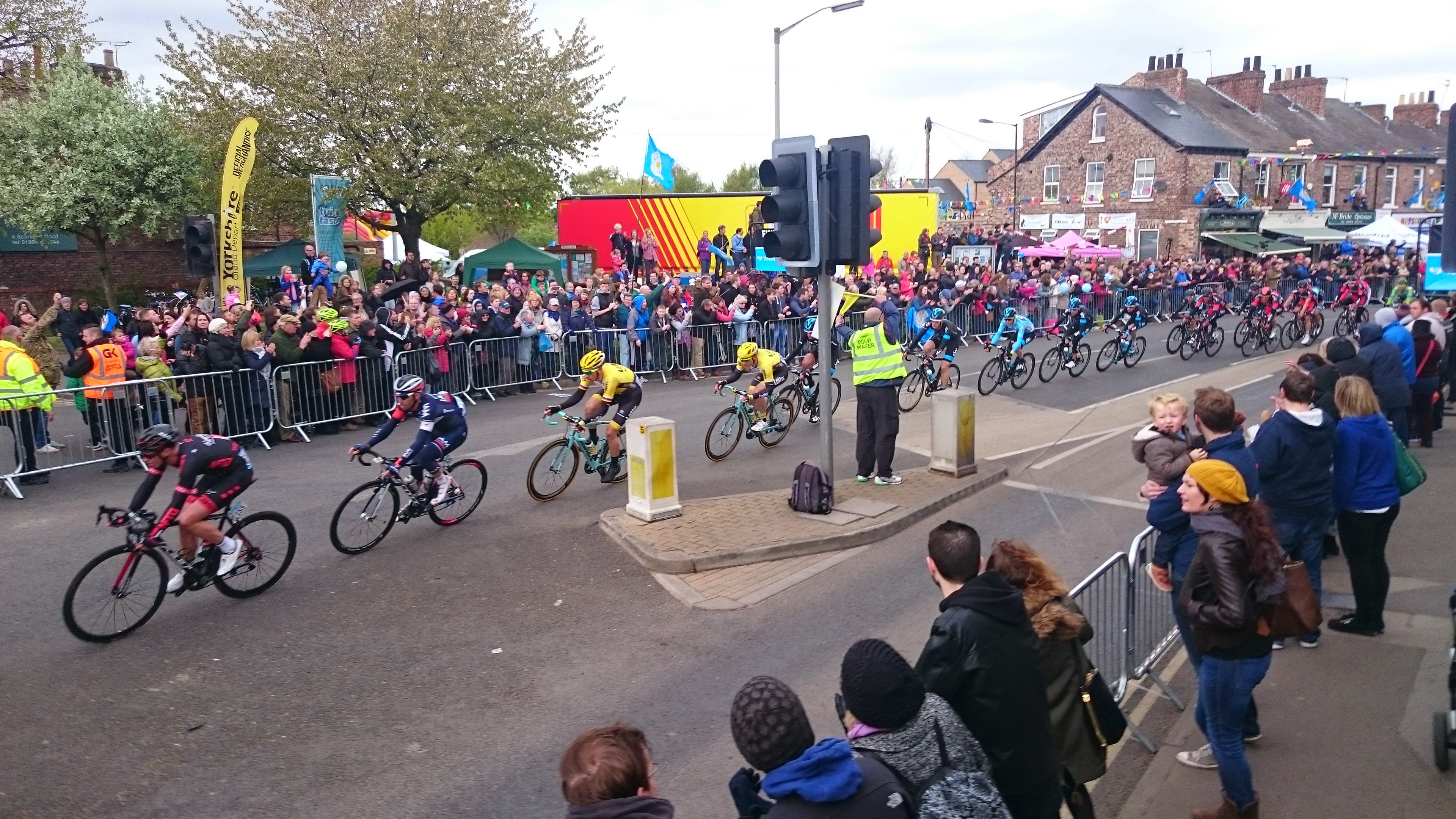 Riders on the penultimate lap of Stage 2 of the 2015 Tour de Yorkshire passing the junction of Bishopthorpe Road and Scarcroft Road, York.